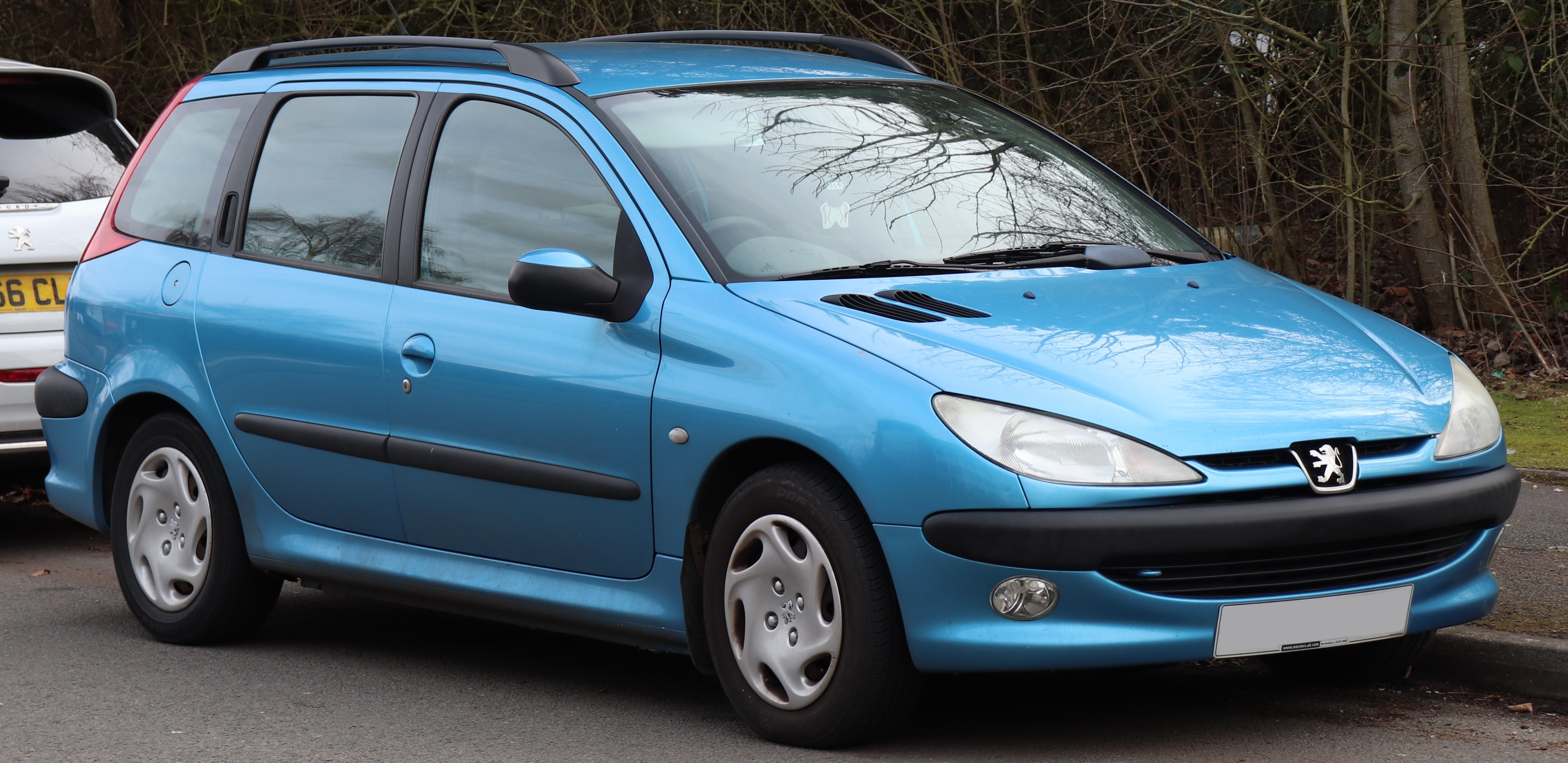 2002 Peugeot 206 SW HDi XT 2.0 Front Taken in Leamington Spa